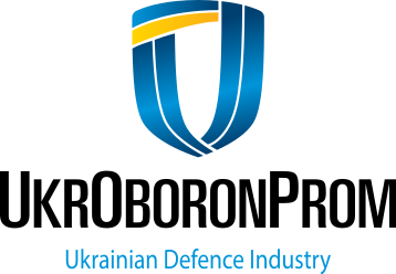 Logo of the State concern Ukrainian Defense Industry